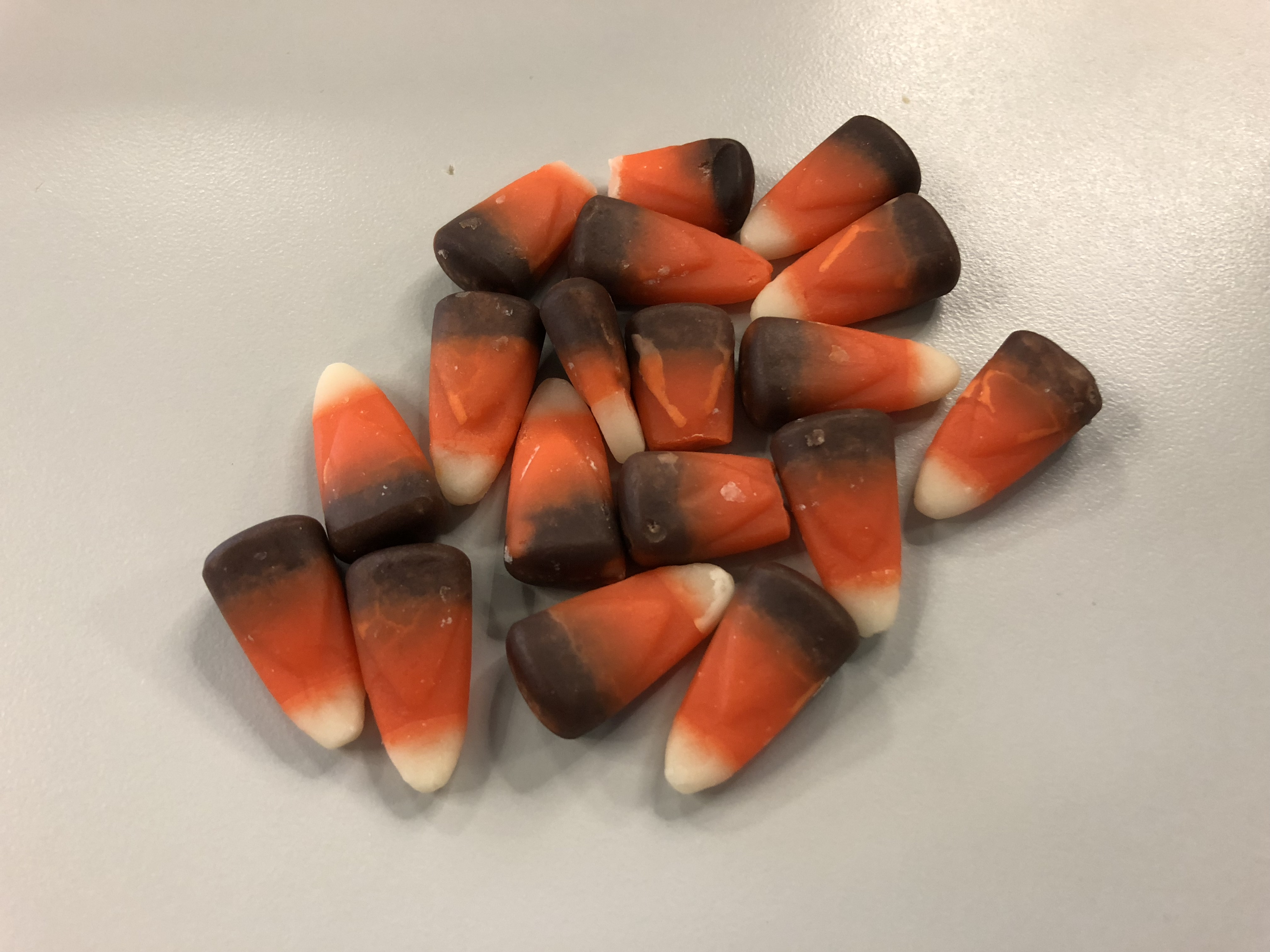 A sample of Brach's Harvest Corn in the Dulles section of Sterling, Loudoun County, Virginia